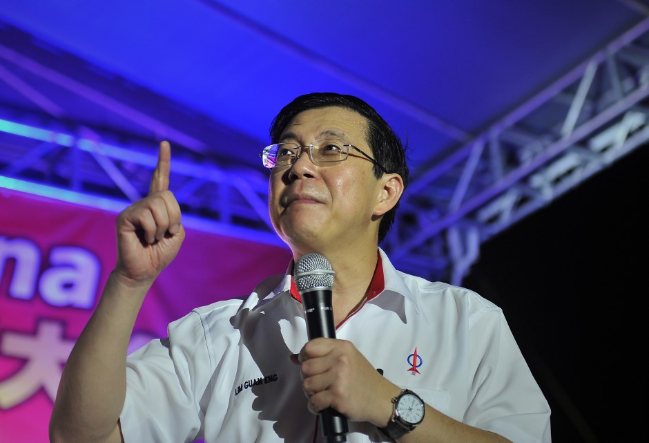 Kuala Lumpur,24/04/2013. DAP secretary general Lim Guan Eng speaks during an election campaign ahead of Malaysia's 13th general election in Pandan Perdana at Kuala Lumpur. PIX Firdaus Latif